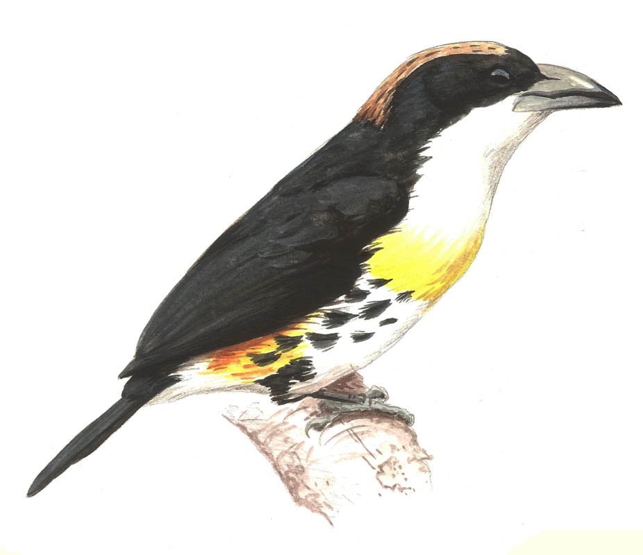 Spot-crowned Barbet (Capito maculicoronatus) - Aquarelle, Romain Risso.